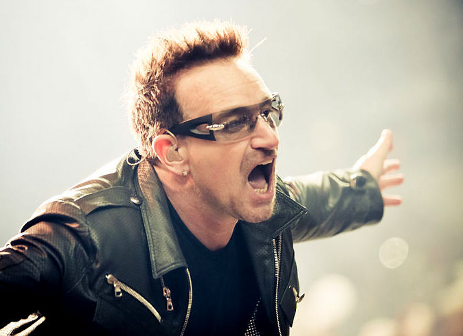 Bono of the rock band U2 performing on September 10, 2011. for more information